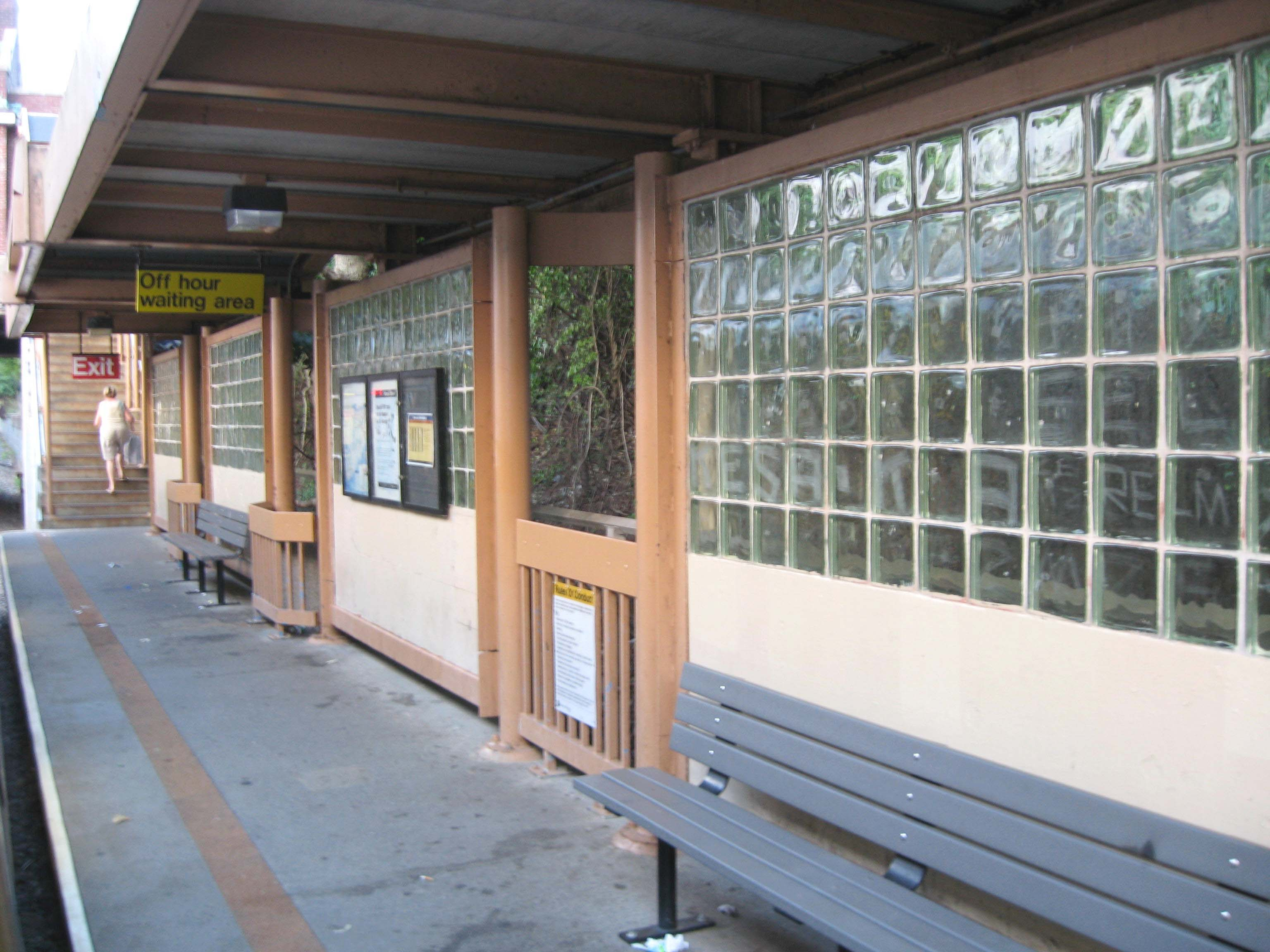 Looking east at northbound platform and stairway of Annadale (Staten Island Railway station) at dusk of a sunny